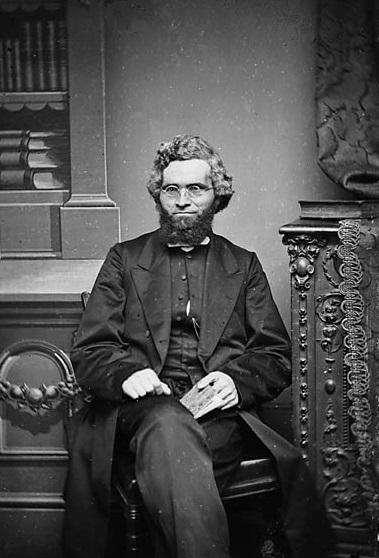 Image of Revd John Roberts (Ieuan Gwyllt)